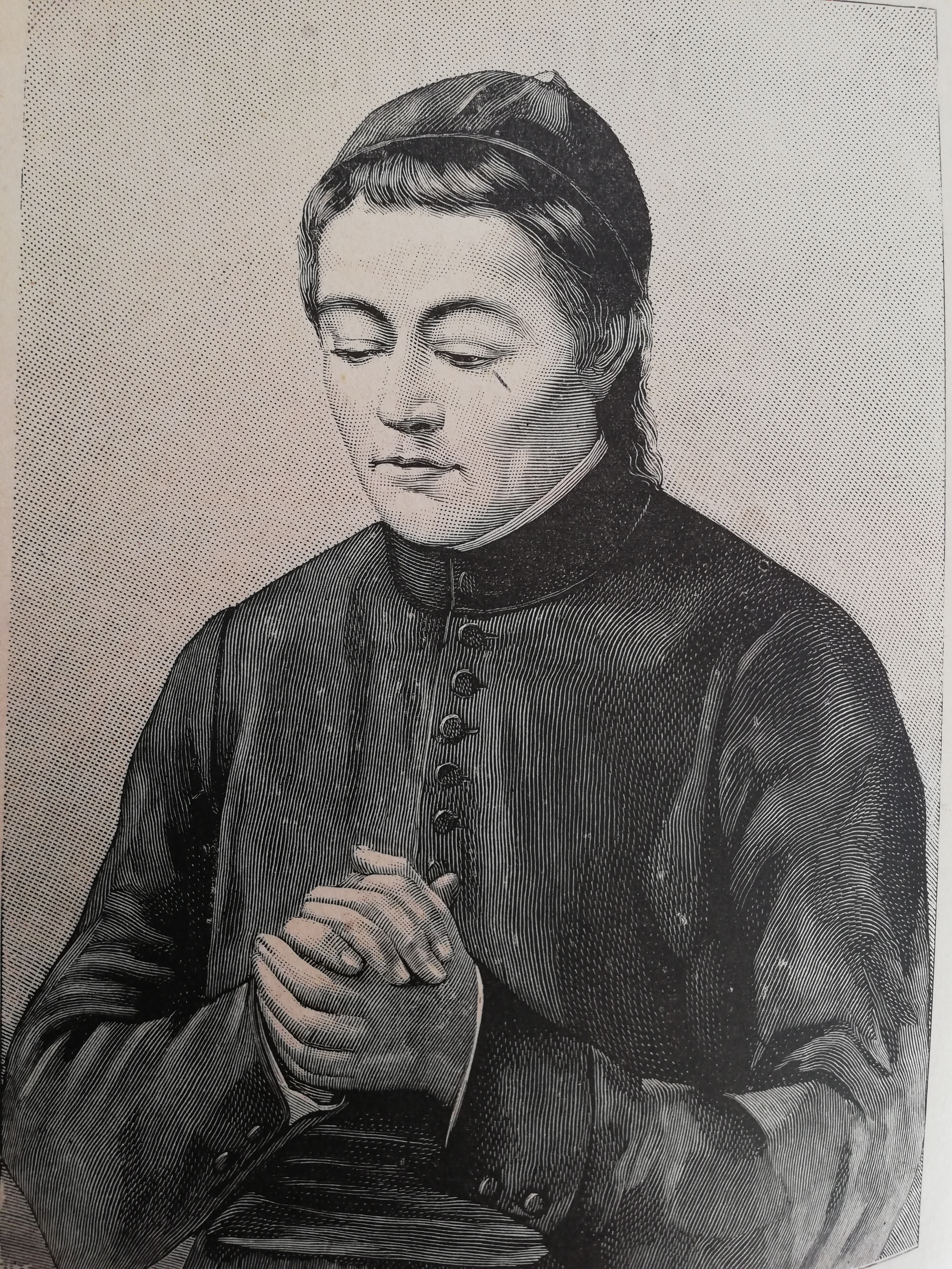 Engraving of 1889, representing Saint Jean-Gabriel Perboyre, a young priest, before leaving for China